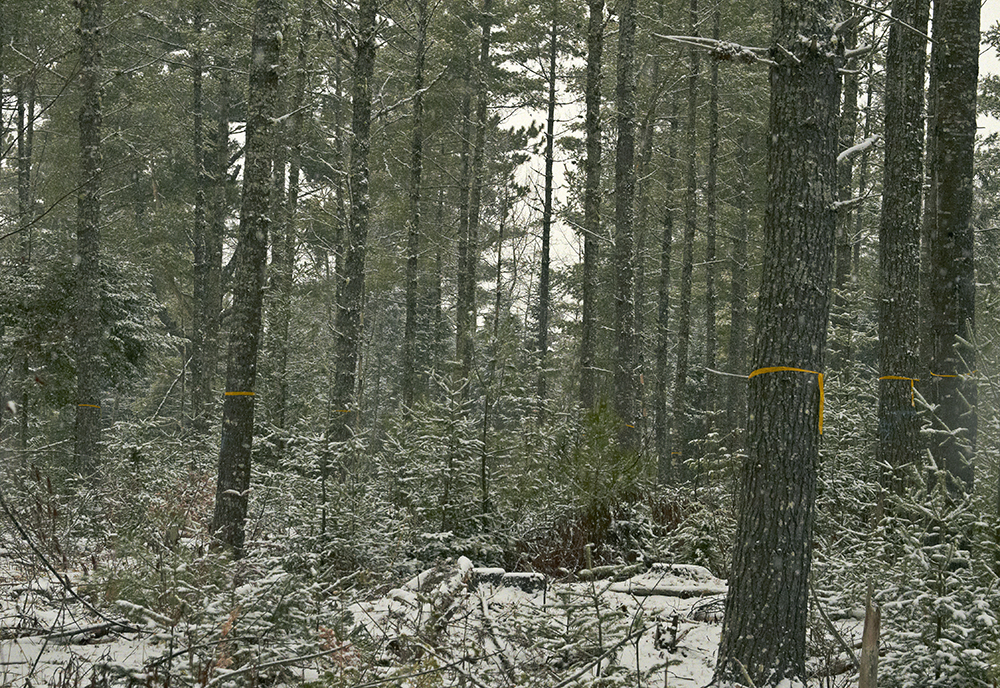 Balsam fir regeneration clogging an eastern white pine stand